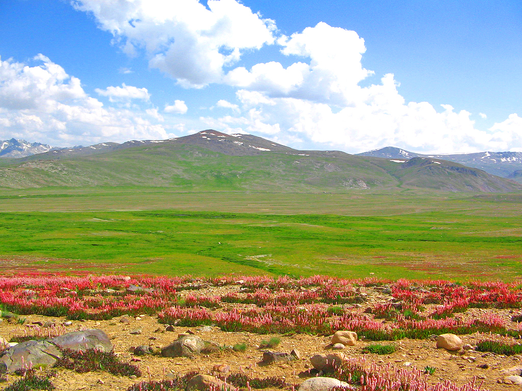 The Deosai National Park in Skardu district, Pakistan. In the Deosai Plains of the far western Tibetan Plateau. This picture was taken by myself, Kashiff, during my visit to the plains.